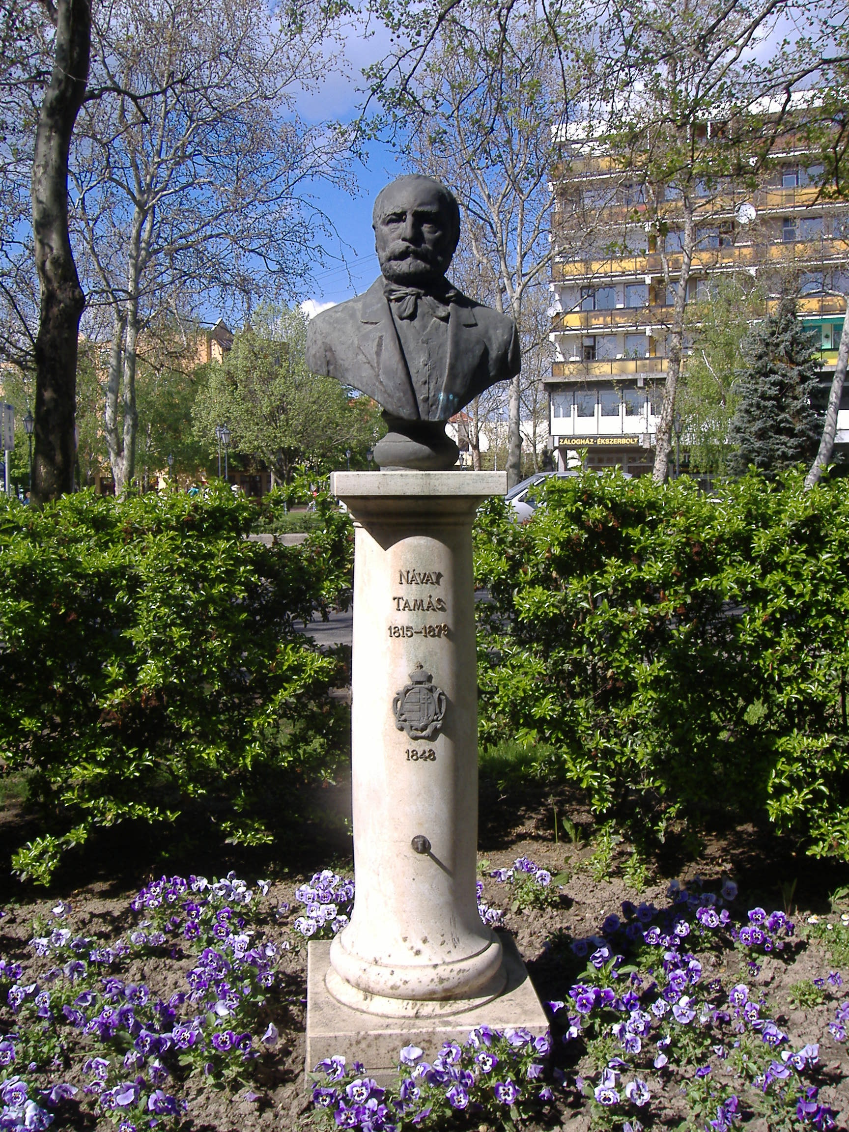 Statue of Tamás Návay, Hungarian nobleman and military commander during the Hungarian Revolution of 1848 in Makó, Hungary